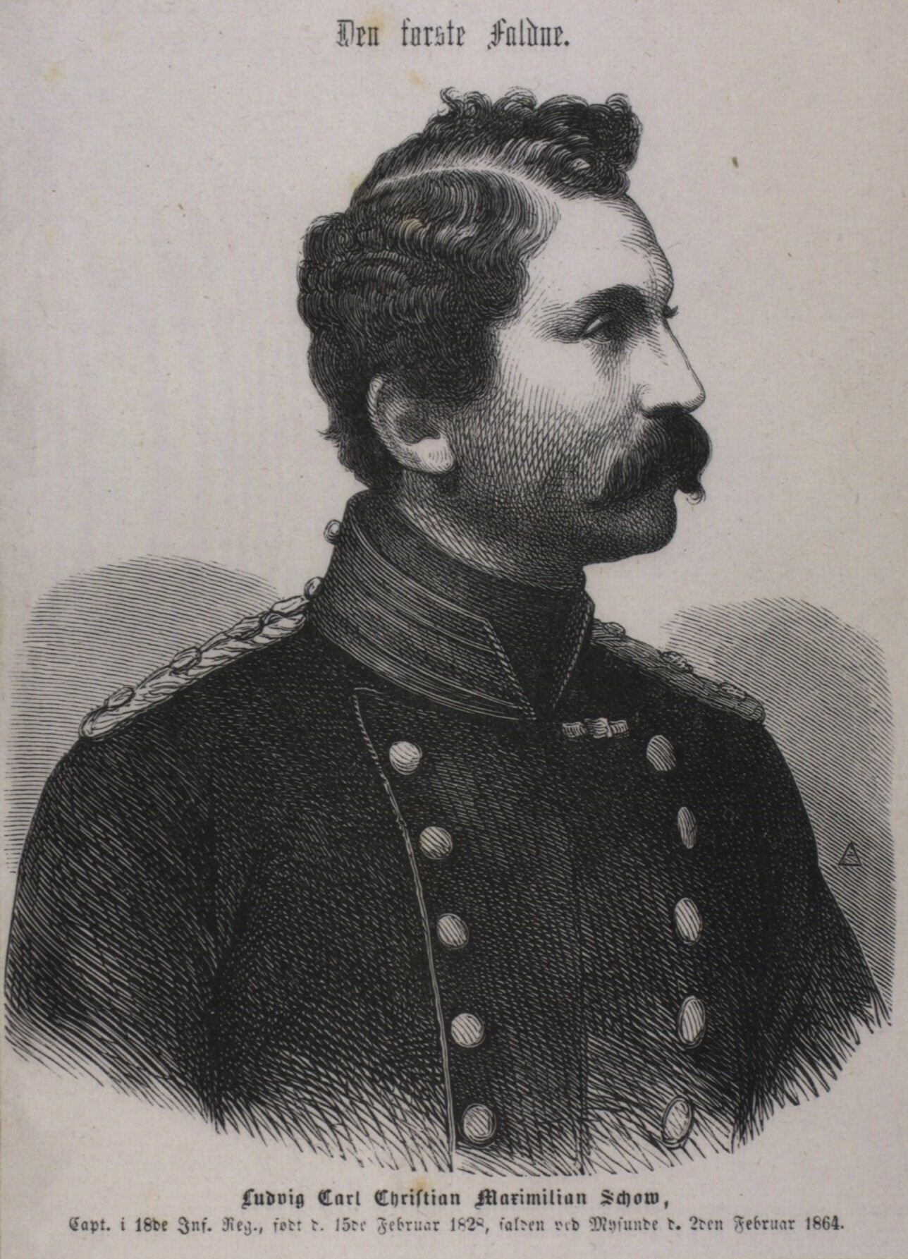 Ludvig Carl Christian Maximilian Schow (1828-1864), Danish army officer